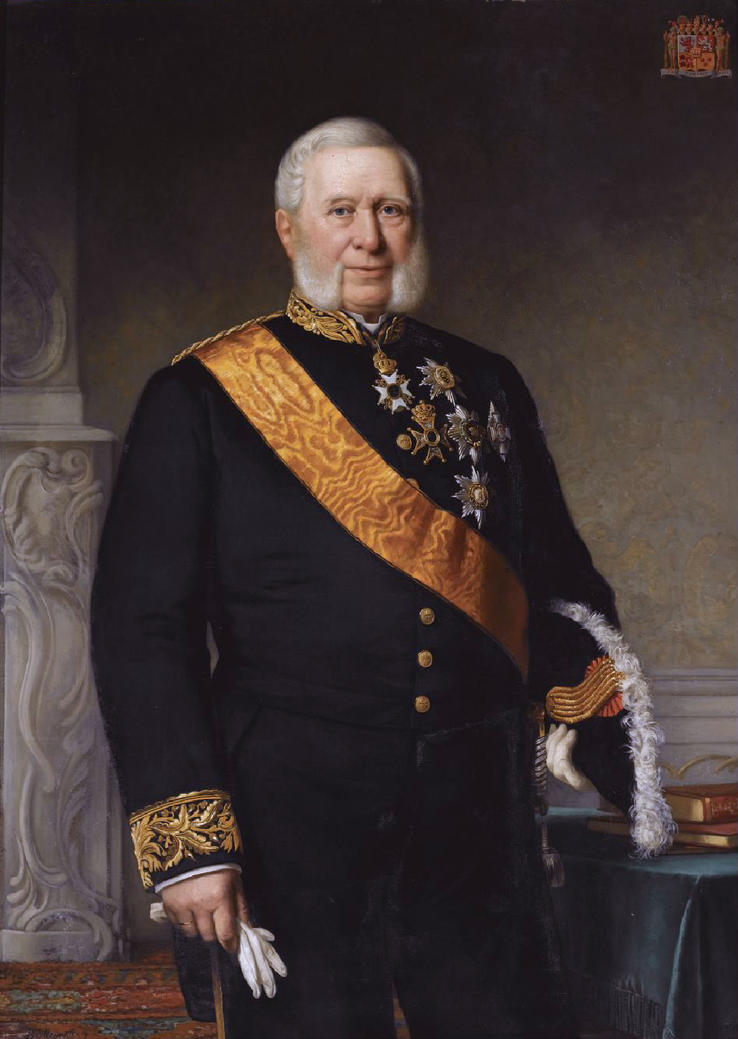 Louis Gaspard Adrien van Limburg Stirum (1802-1884) oil on canvas 137 x 101 cm signed l.l: B.L. Hendriks. 1873